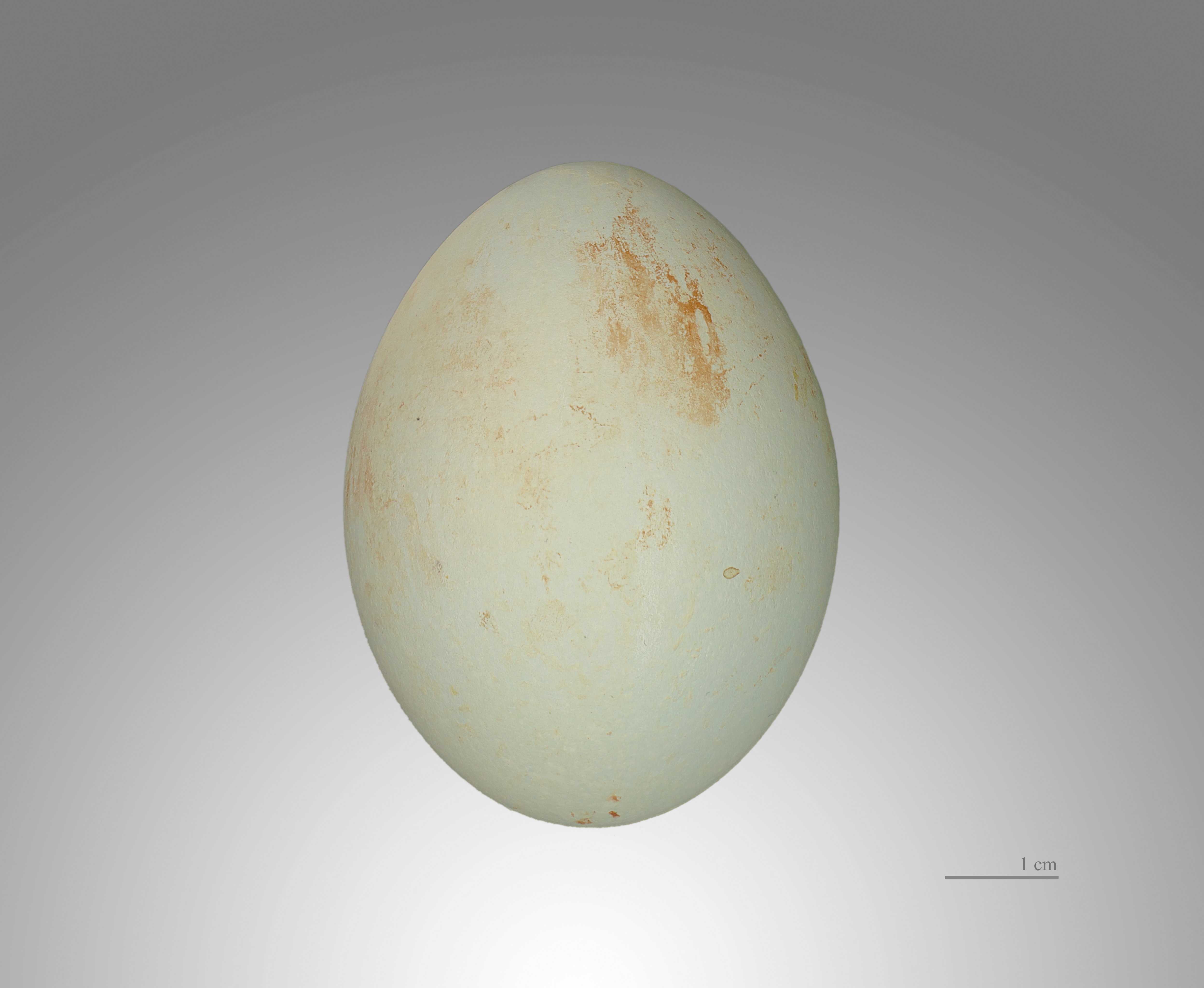 Egg of Goliath Heron. Collection of Jacques Perrin de Brichambaut. Locality: Mangrove, Bissagos Islands, Guinea-Bissau.